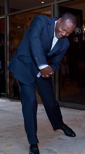 World-famous cricket legend Brian Lara shows how to properly swing a bat on April 19, 2009.